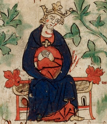 An illuminated detail from BL Royal MS 20 A ii, Chronicle of England [folio 6v], showing Henry I of England. Held and digitised by the British Library. C. Hollister in "Henry I" describes this as Henry mourning the death of his son.